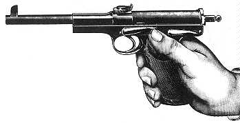 Standart M-98 pistol was designed for use as a true handgun; no more as a surrogate autoloader carbine. Frontmost lever on the left side is a safety. Positions of it are "SAFE" downwards and "FIRE" upwards. Rearmost lever is a hold-open catch ("setting lever") of a breech-block, which keep the bolt in it's rear position during removal of an empty magazine and insertion of a filled clip. Pistol is cocked on the picture. Note a prominently extruding rear end of a striker; easy to see and feel. Thumb of a shooter is pushing the safety lever to "FIRE" position, and the forefinger is away from the trigger. (Source: Engraved illustration from the Schwarzlose manual, published in 1901).